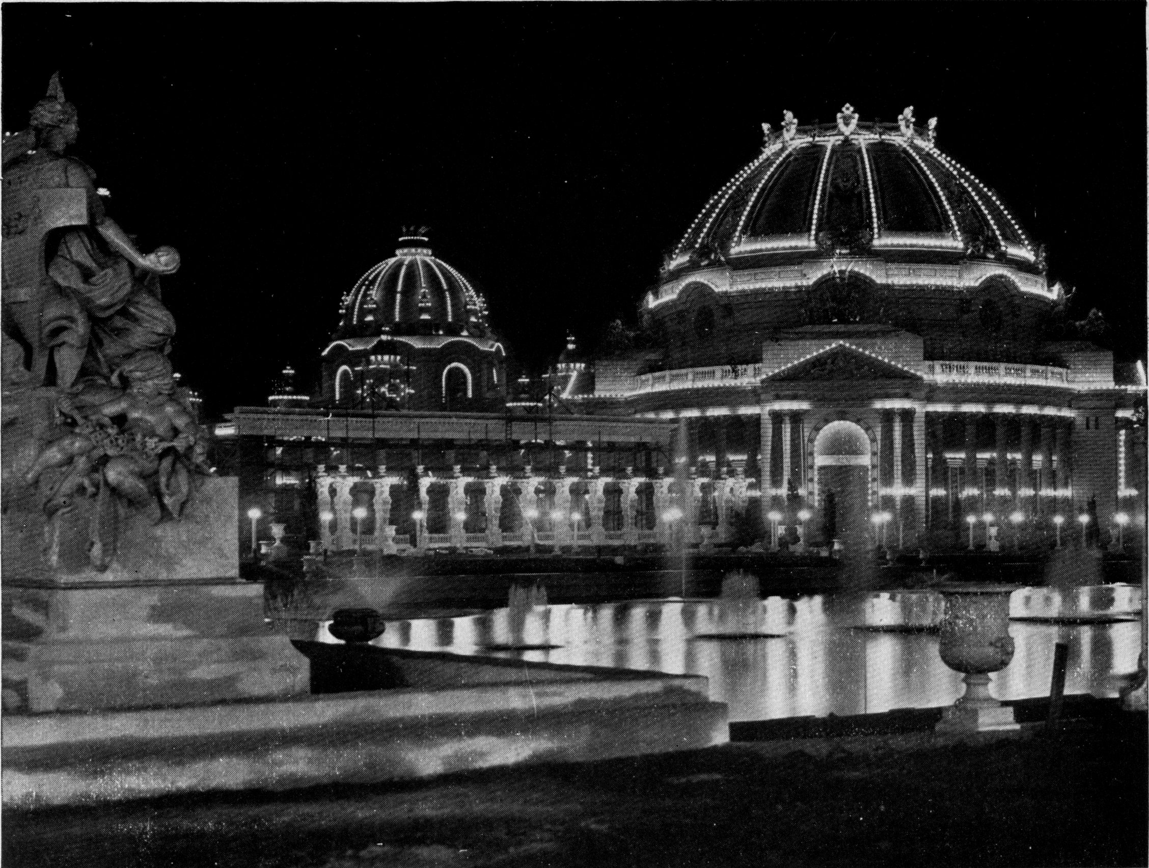 Original caption: "Ethnology Building at Night - The Ethnology Building at night is remarkable for the beauty of its color scheme in the radiance of the electric lights. It seems almost as if the walls and columns were translucent, and light from within was shining through them. The reflection in the basic of the Court of Fountains is seen, and the statuary group called "The Sciences" appears to the left."